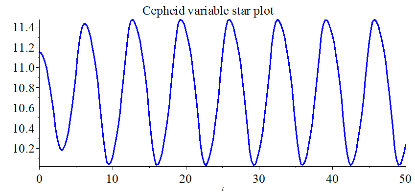 Cepheid varible star radius plot